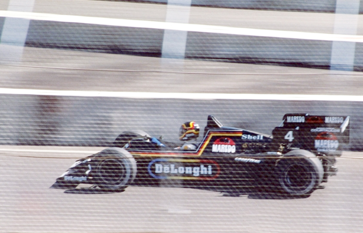 Stefan Bellof, #4 Tyrrell-Ford was disqualified on Lap 9, don't know why. Bellof had a short Formula 1 career of only 20 starts before he was killed in the crash of a Porsche 956 at the 1000 km Spa event in Belgium. He was highly regarded as a future Formula 1 champion and was the idol of a young Michael Schumacher. His death shortly after Manfred Winkelhock's, caused all F1 teams to tighten their contracts with their expensive drivers to preclude running any events that were not part of the Formula 1 chase.